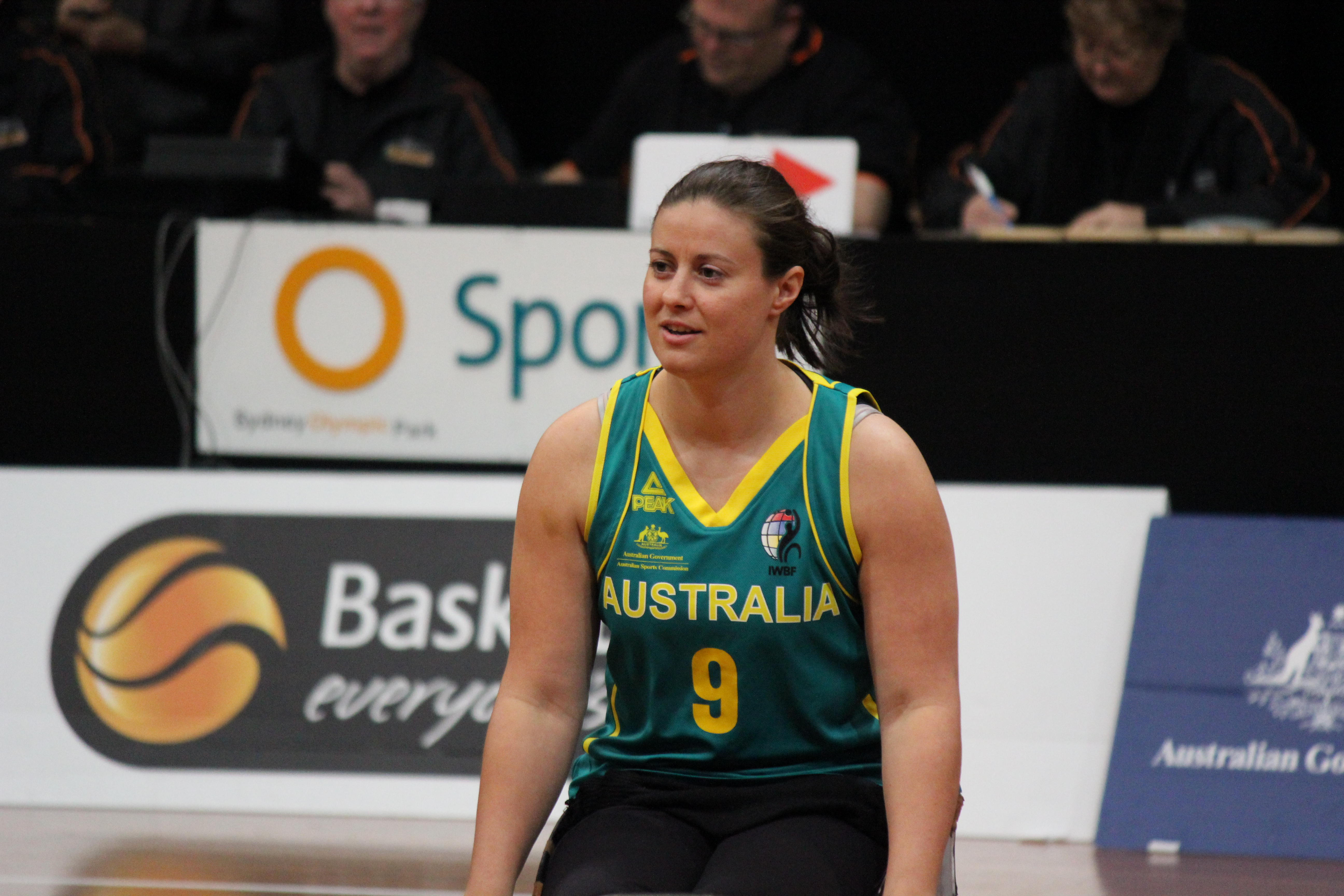 Aussie Gilder player in July 2012 in Sydney.